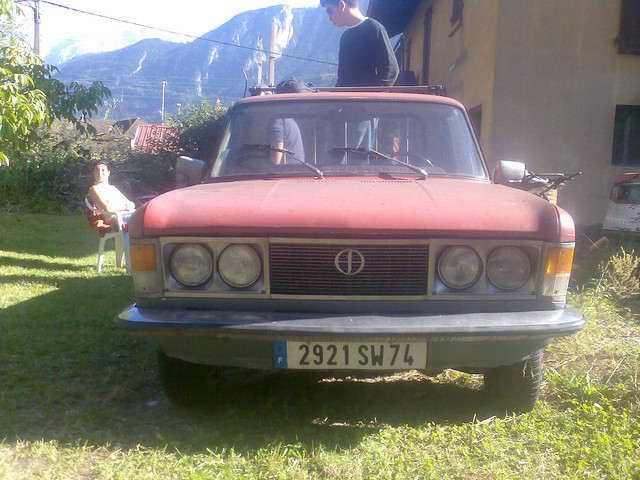 Export model of FSO 125p.